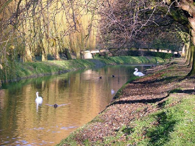 Bridge over the River Idle. This Bridge is in Kings Park Retford.A delightful walk along the River Idle